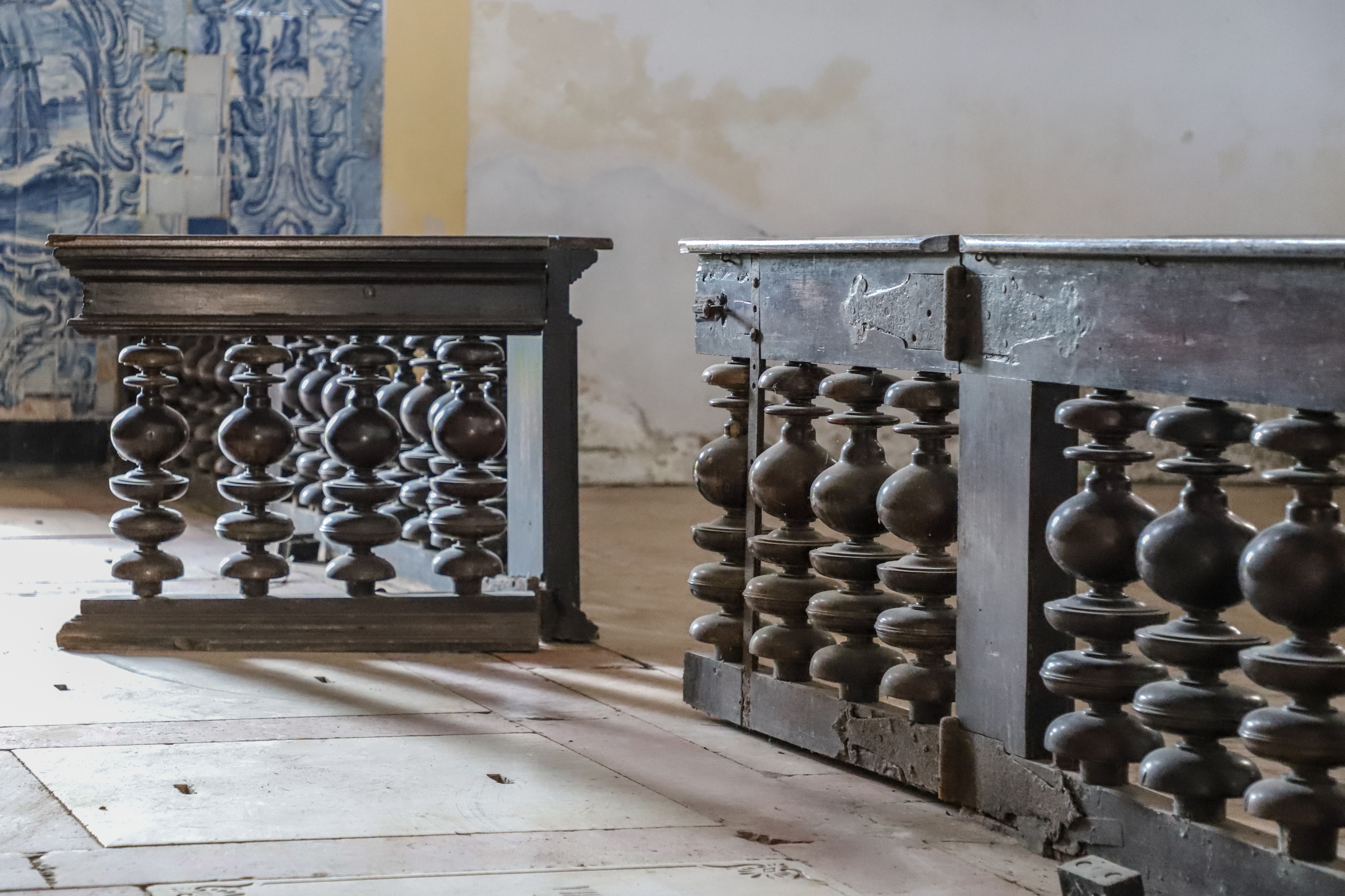 Altar rail, Convento e Igreja de Santo Antônio e Capela da Ordem Terceira (Church and Convent of Saint Antony and Chapel of the Third Order), São Francisco do Conde, Bahia, Brazil.